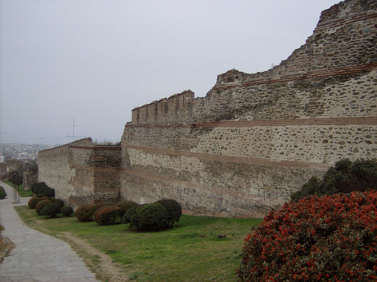 Byzantine city walls of Thessaloniki